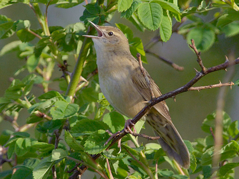 Common grasshopper Warbler